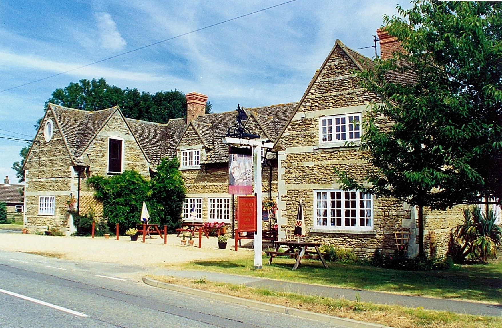 The Six Bells at Witham-on-the-Hill, near Bourne, Lincolnshire